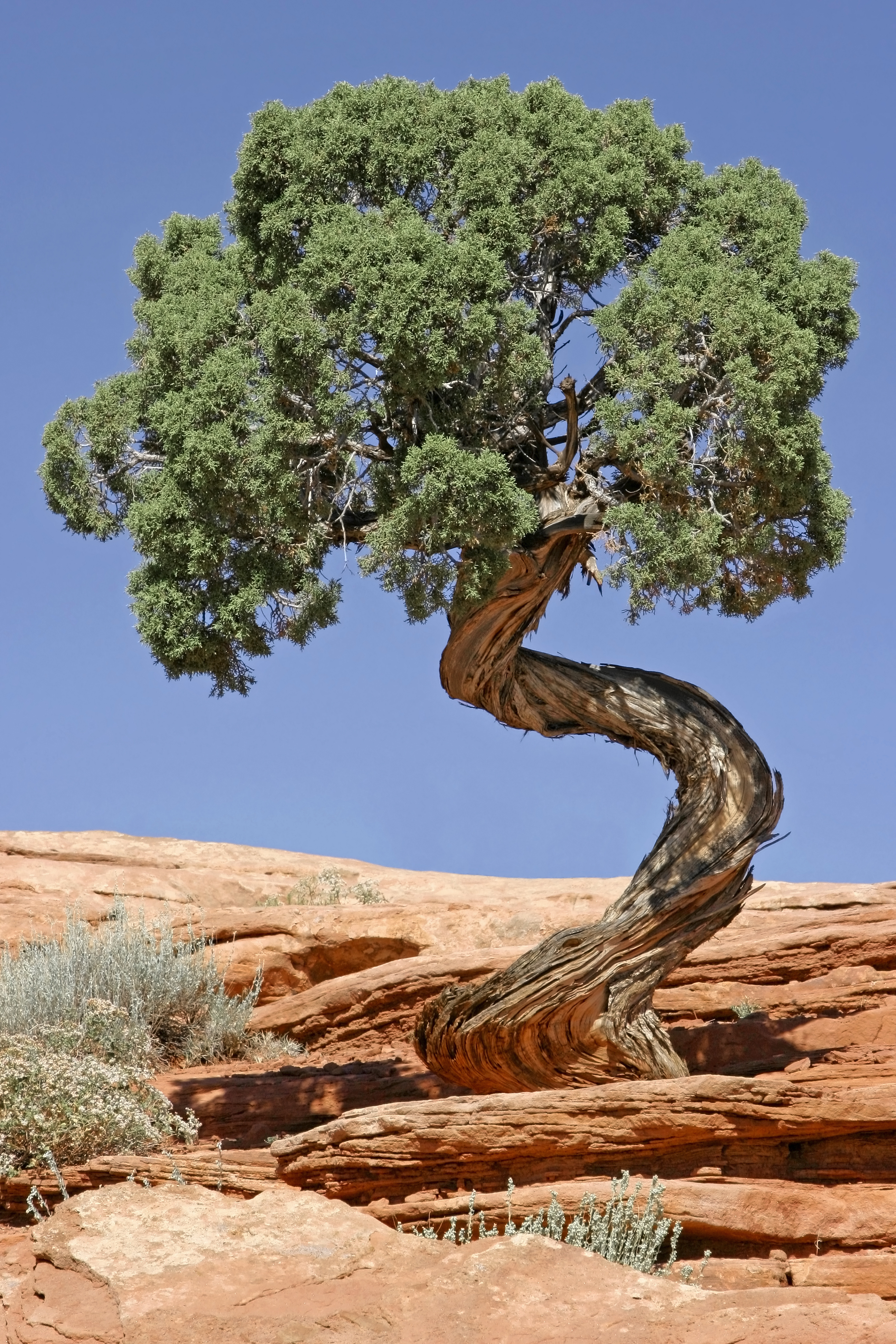 Utah Juniper tree (Juniperus osteosperma) in Canyonlands National Park in Utah, USA